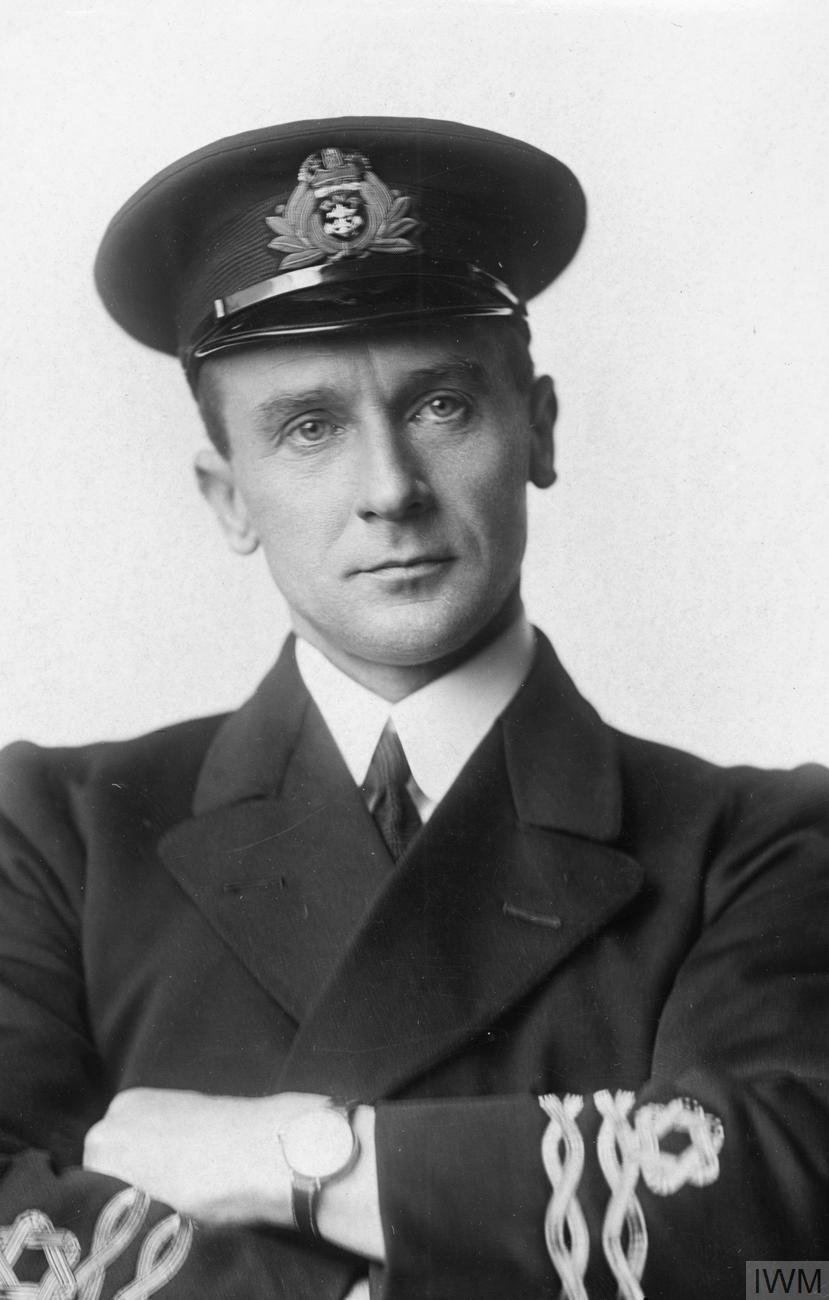 HMS Excellent, Royal Naval Reserve Faces of the First World War Find out more about this First World War Centenary project at This image is from IWM Collections.